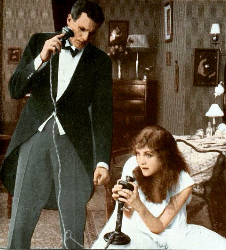 Scene from the 1915 film The Spendthrift from an ad in Motion Picture World.